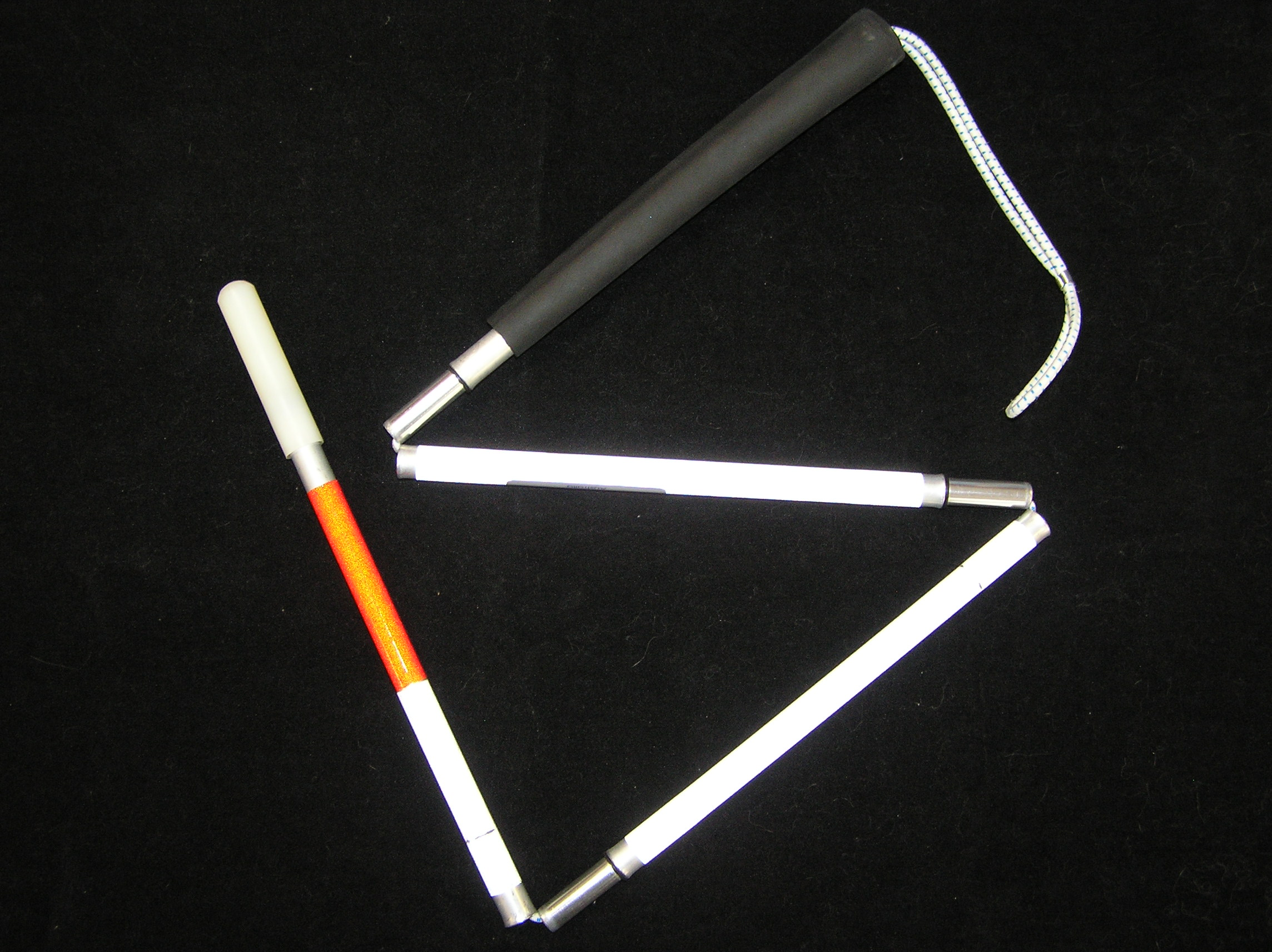 A folded long cane. The long cane is the primary mobility tool for blind and vision impaired people. Long canes are often foldable to save space.